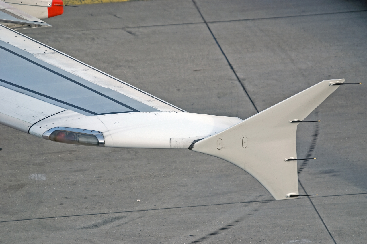 Photo of the left winglet of an Airbus A319-131 at Amsterdam schiphol EHAM